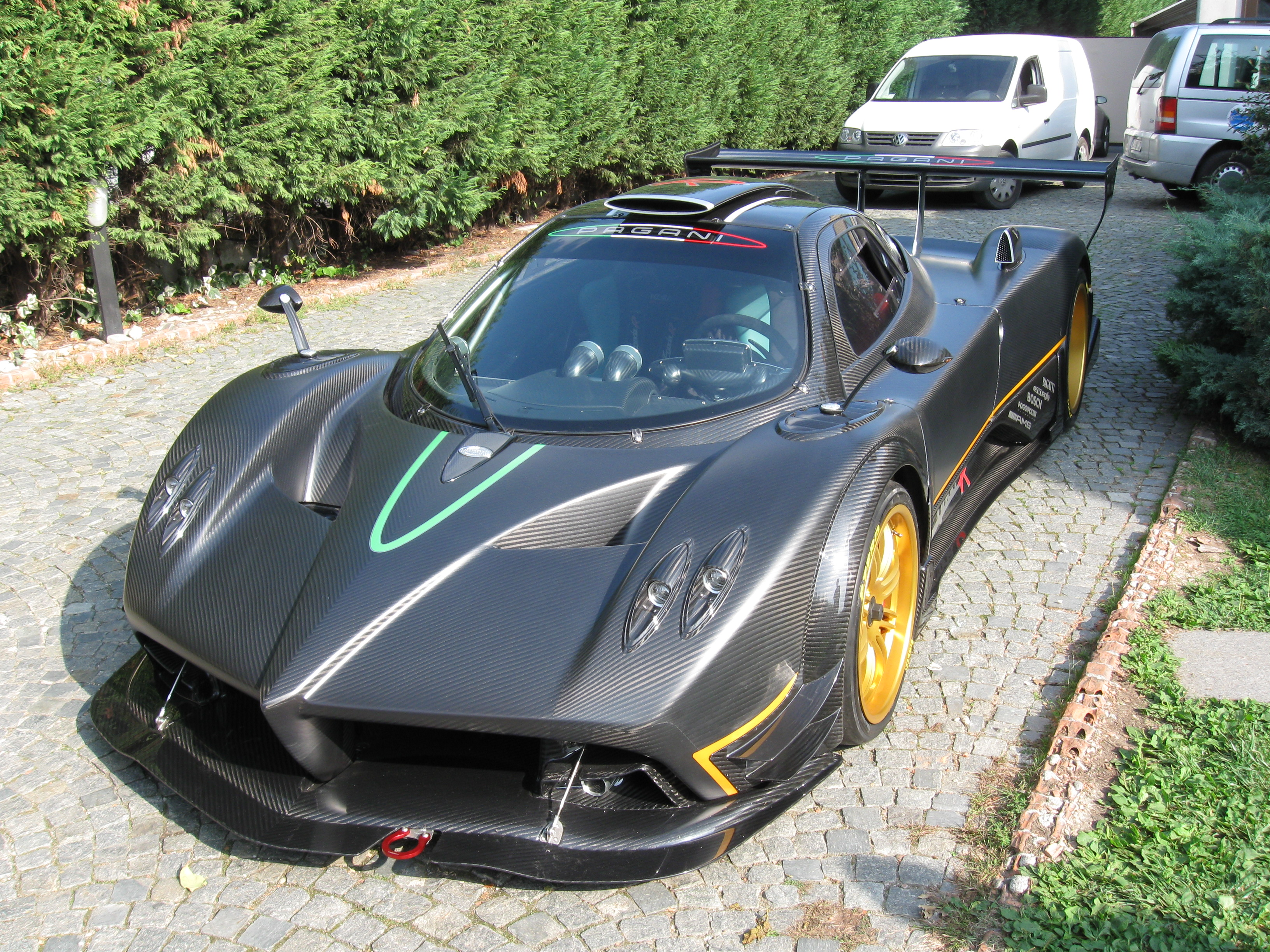 The Pagani Zonda R outside the Pagani workshop near Modena